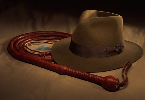 10ft 12 Plait Kangaroo hide Bullwhip.